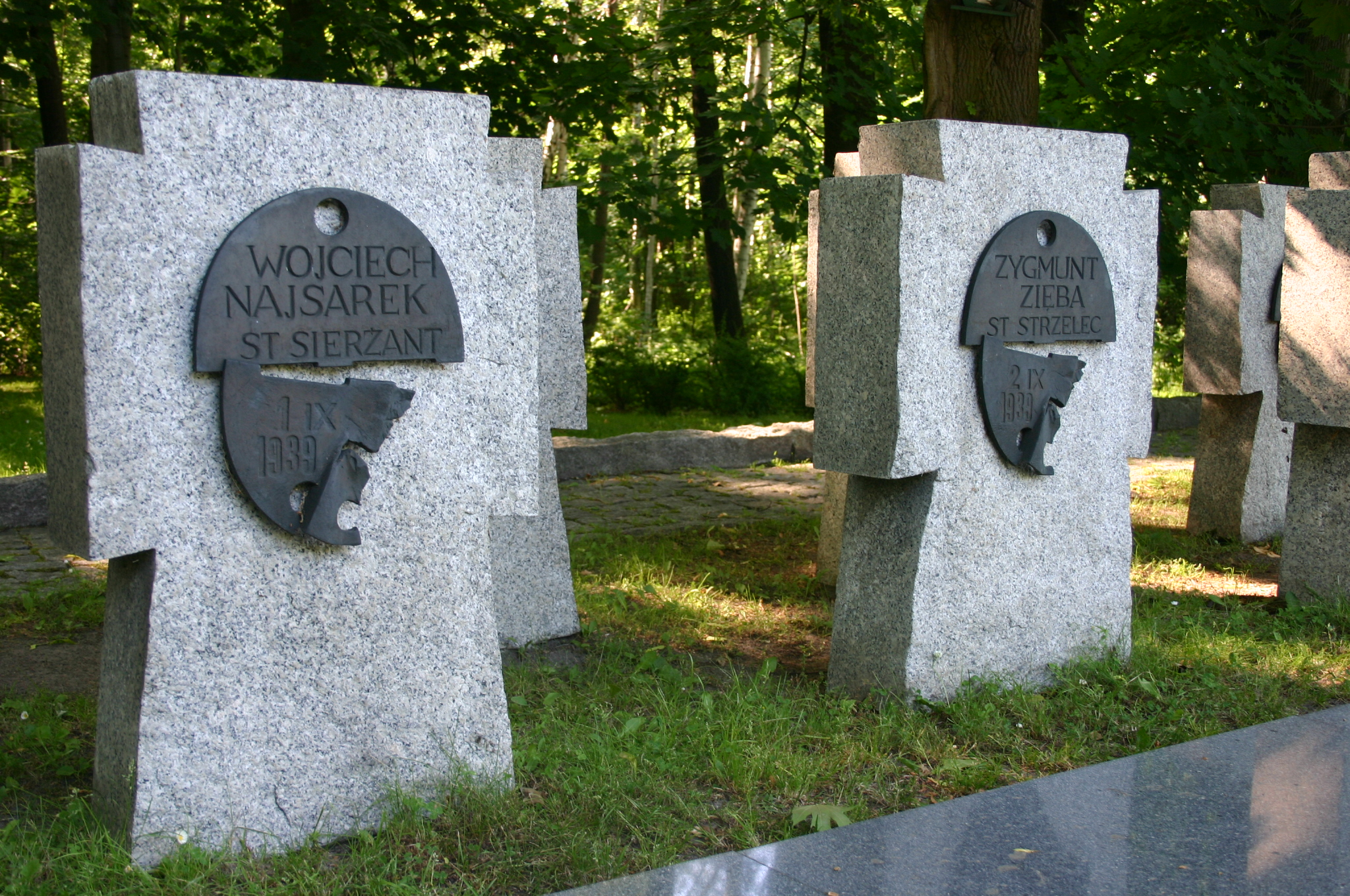 Graves of the original fallen soldiers. Medicaster (talk) 19:49, 8 December 2007 (UTC)Medicaster